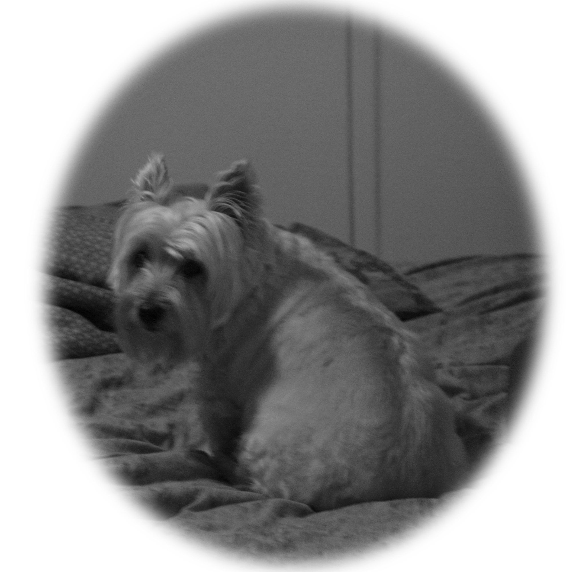 Cairn Terrier named Charlie on bed being pensive